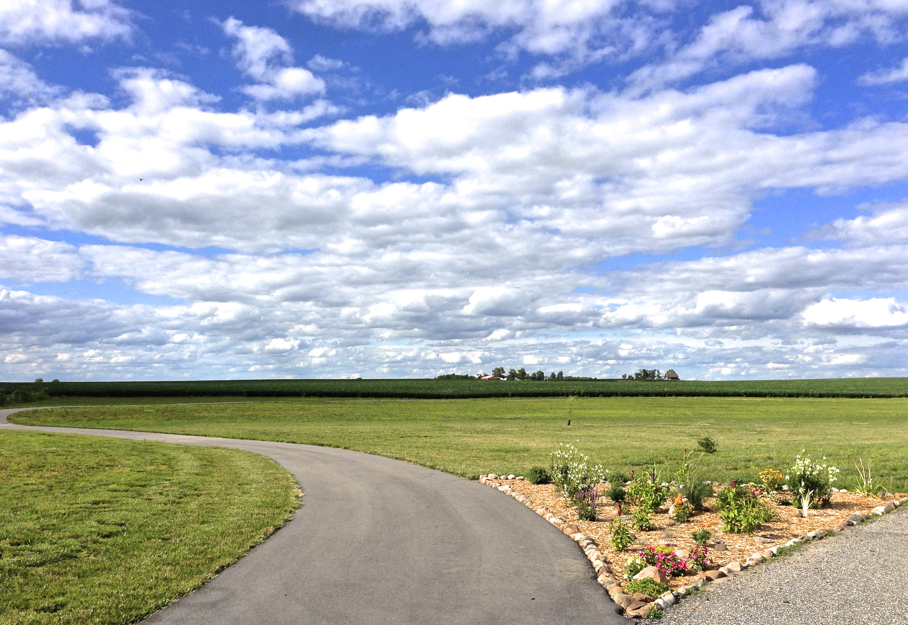 Walking park with a view of the northern countryside of Chalmers, Indiana.